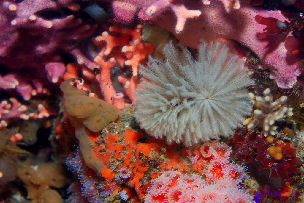 the worm and also you can see sponge hydrocoral, strawberry anenome